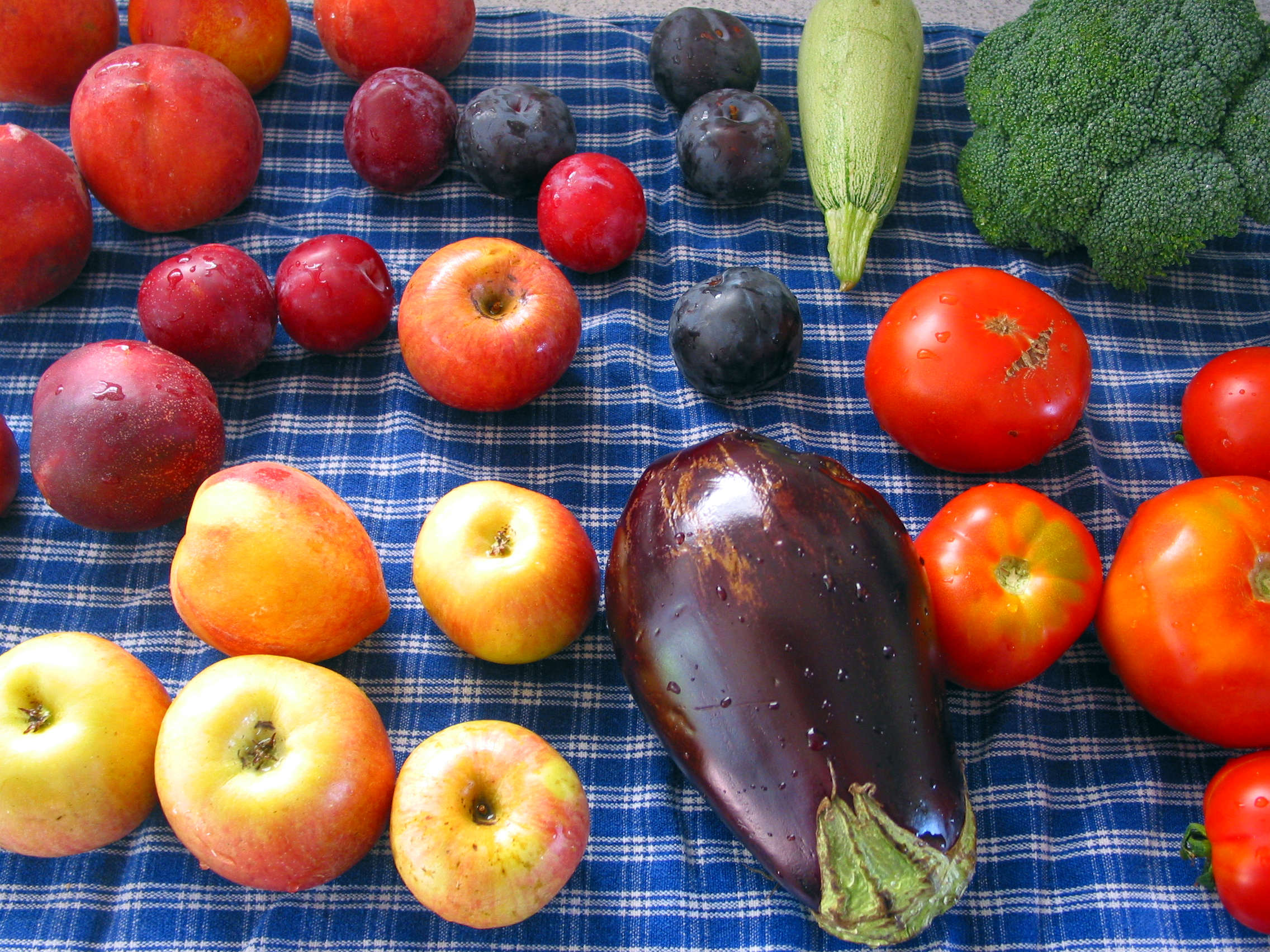 Fruits and vegetables from a farmers market. circa 2007, USA, California, Long Beach